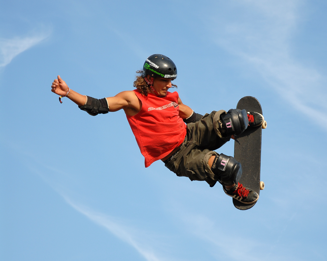 skateboard vert jump at the sprite urban games 2006 in clapham common, london.